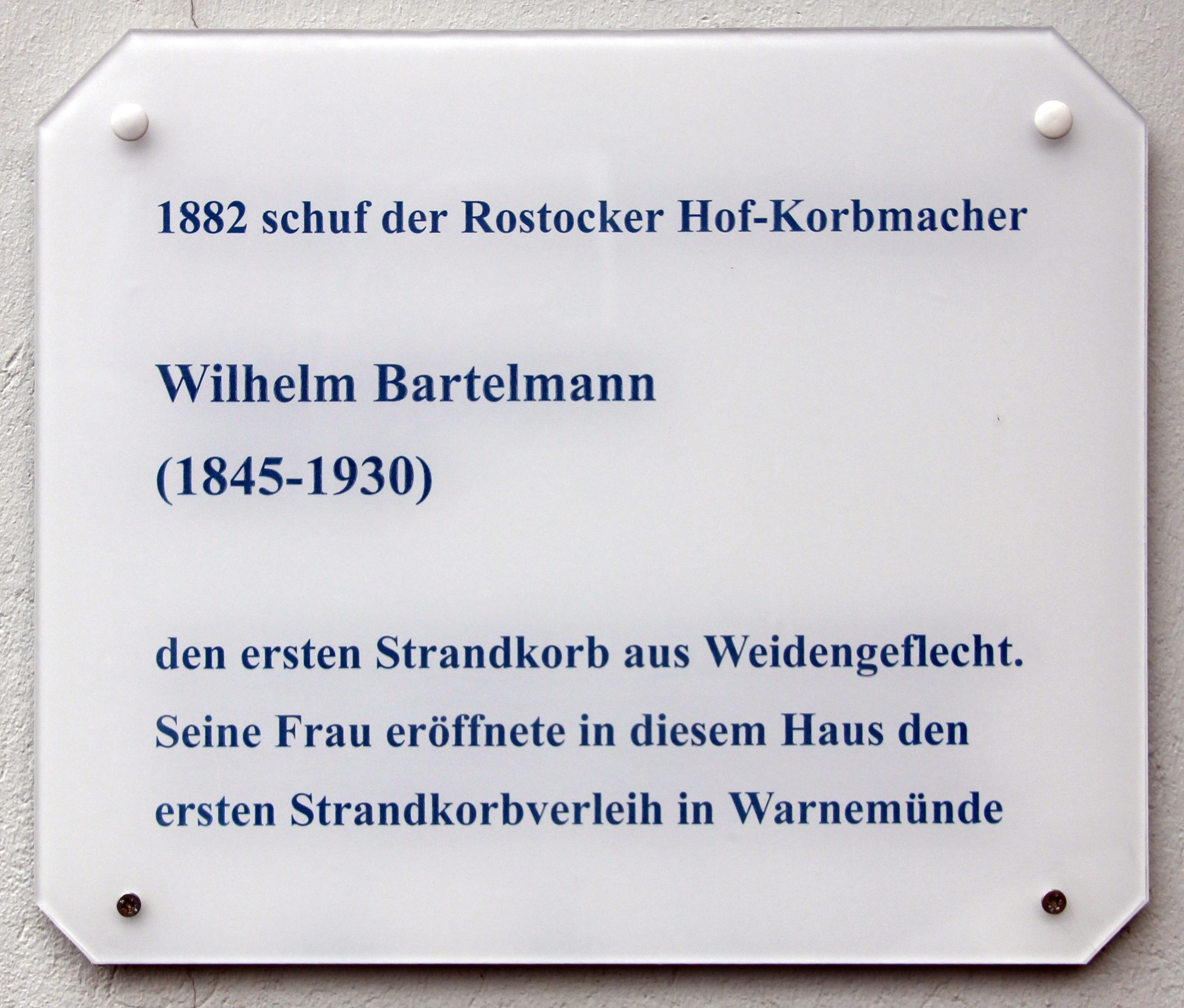 Memorial plaque, Wilhelm Bartelmann, Am Leuchtturm 10, Warnemünde, Germany